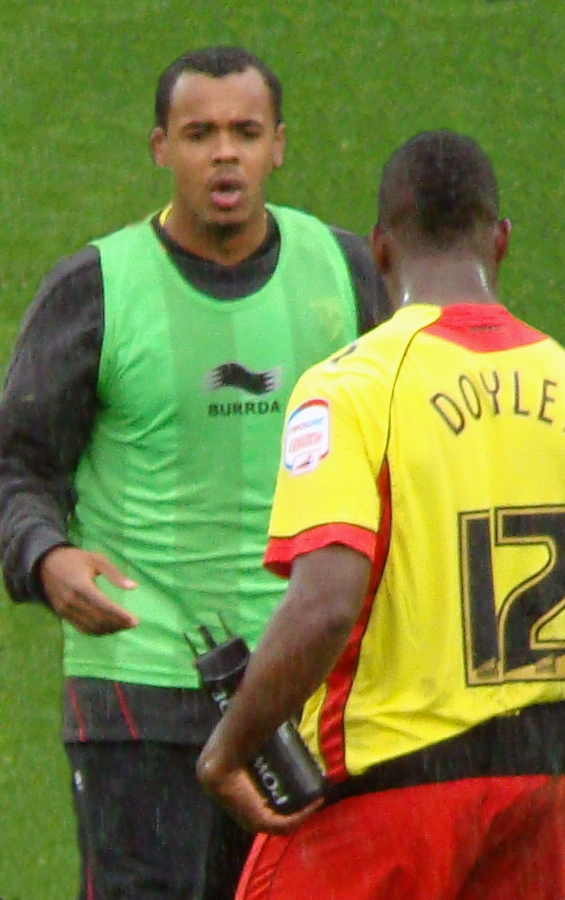 Matty Whichelow talking to Watford FC teammate Lloyd Doyley, following their match against Cardiff City FC on 9 April 2012. This photo has been cropped, and the background substantially altered.